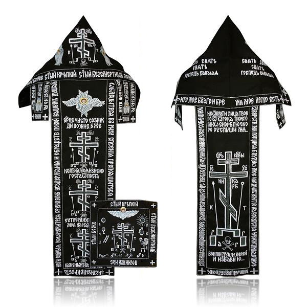 I created this photo using 2 photos from internet. I edited background, some colors, some details and added mirror effect.